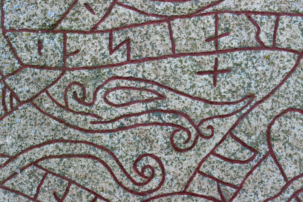 Runestone U893 Detailed closup of the head